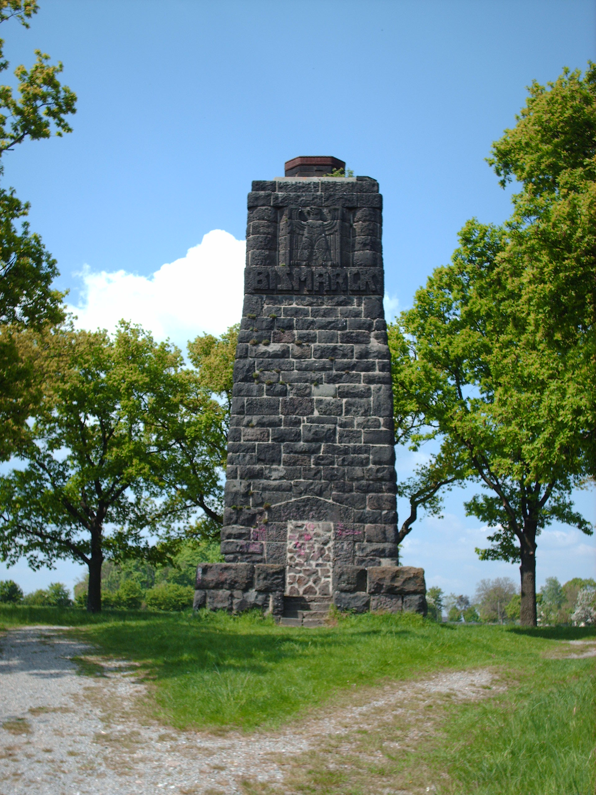 Bismarck tower, Gießen, Germany check usage